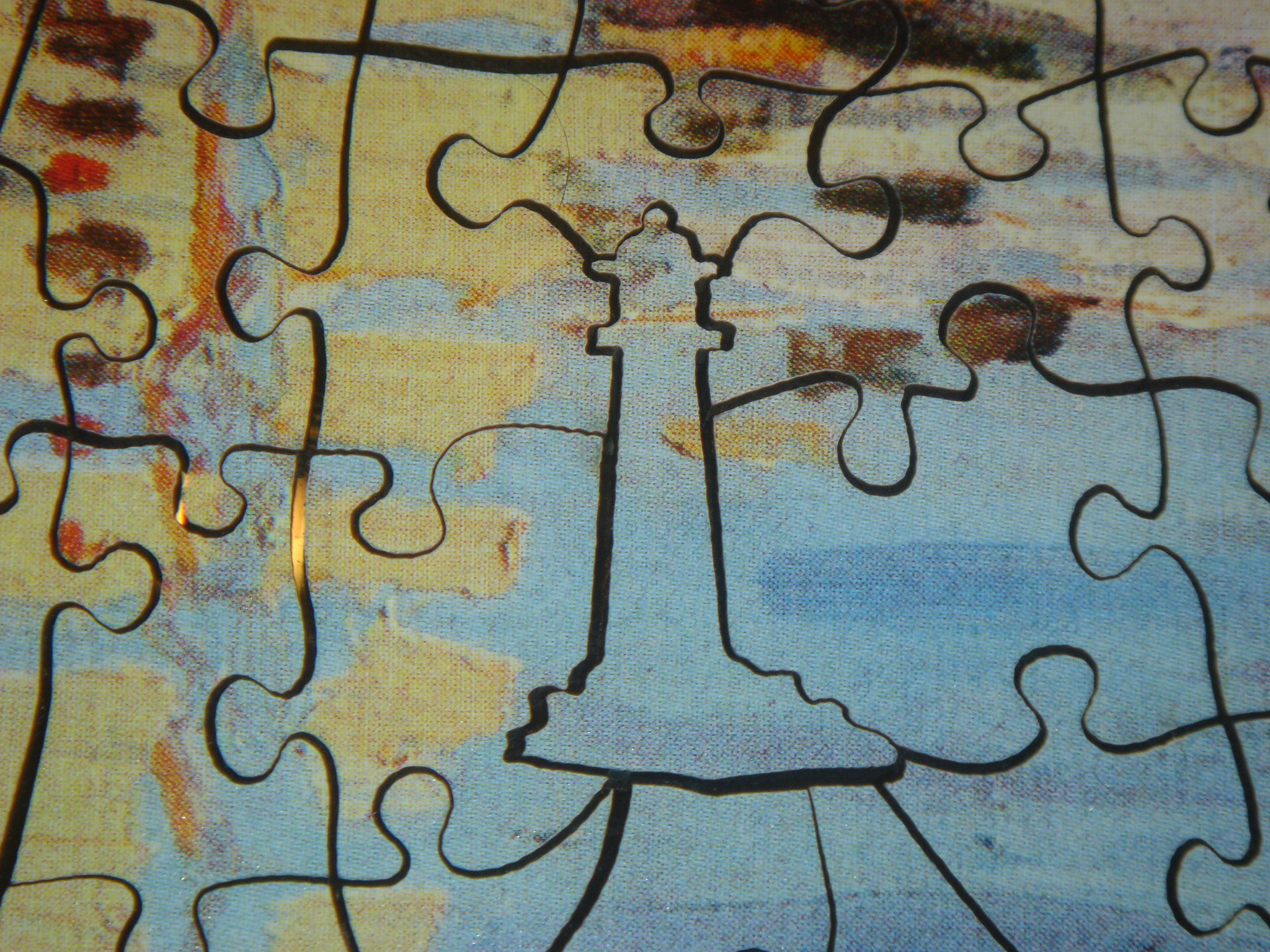 A "whimsy" from a nautical-themed wooden jigsaw puzzle. Puzzle by The Wentworth Wooden Jigsaw Company Limited